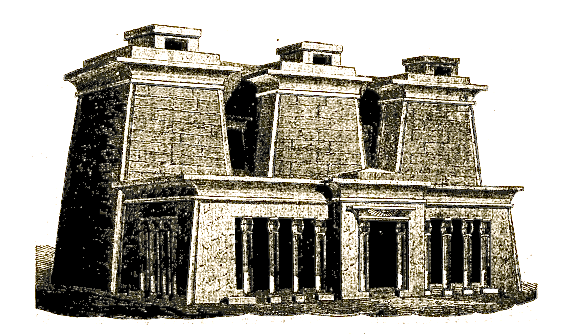 Iron furnaces built in 1824 at the Bute Ironworks, Rhymni